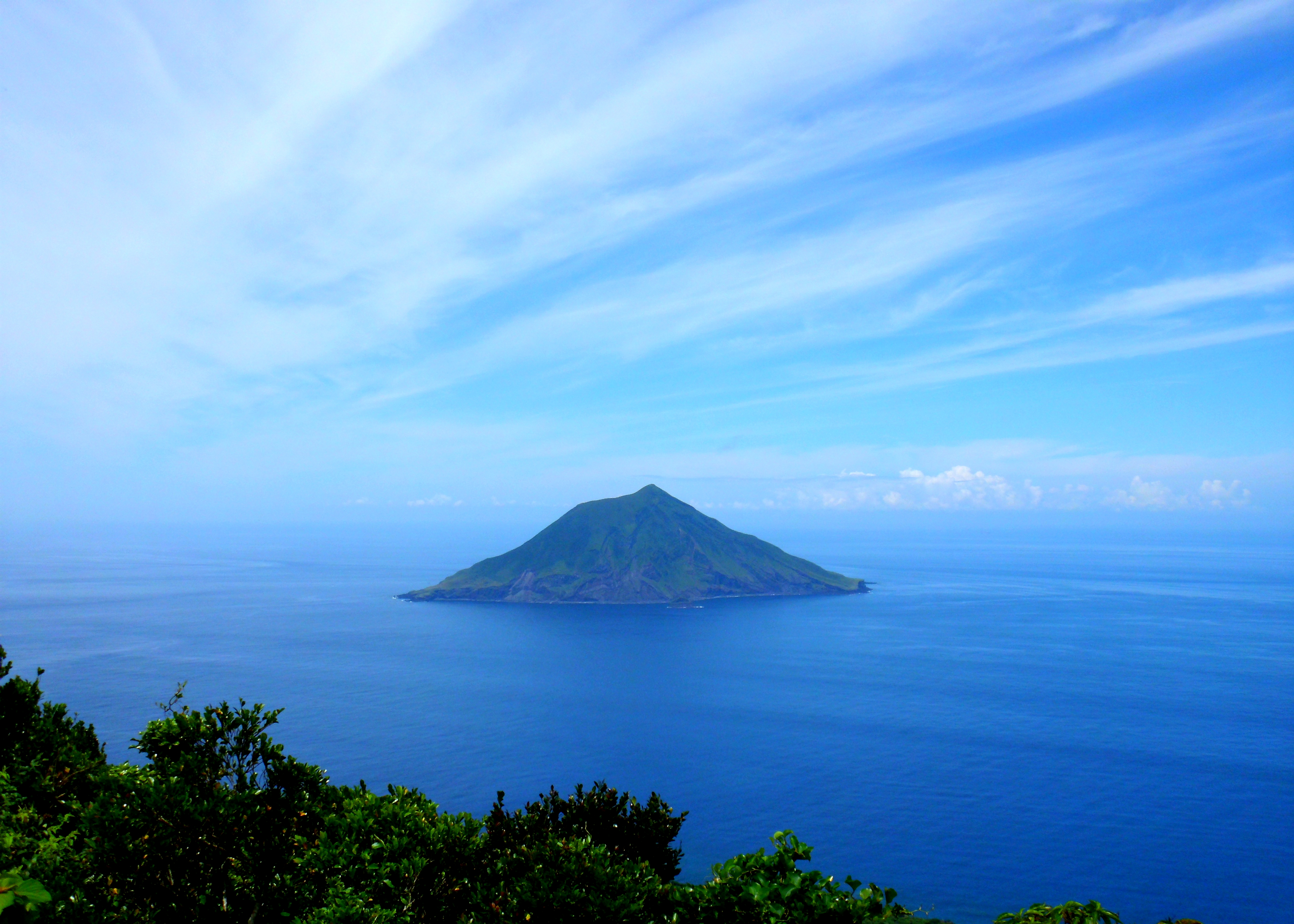 Hachijō-kojima view from Hachijō-fuji